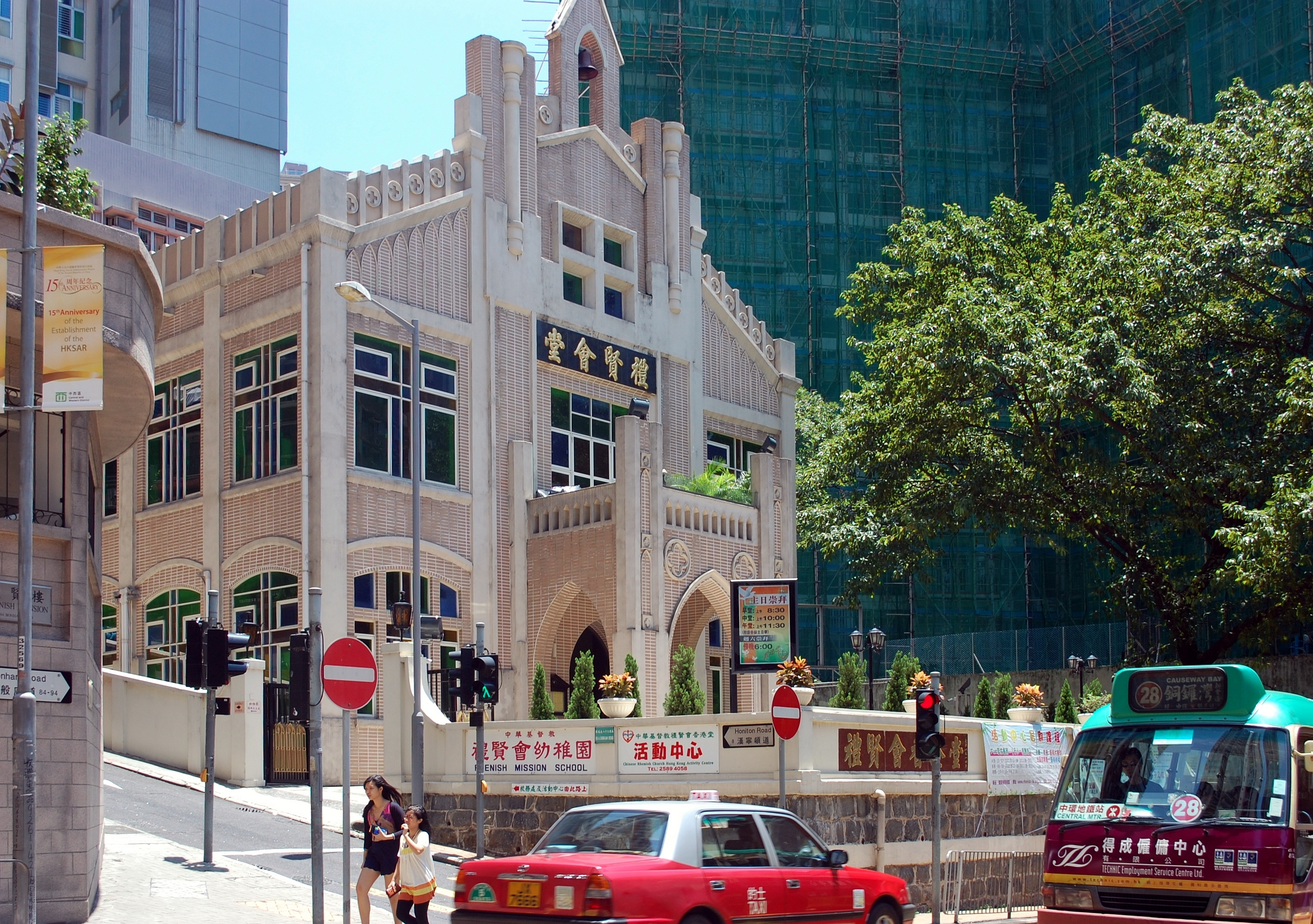 Chinese Rhenish Church, Bonham Road, Sai Ying Pun, Hong Kong 中文（香港）: 禮賢會香港堂